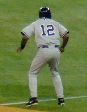 Scott Schoeneweis of the Toronto Blue Jays delivers a pitch during a game at the Rogers Centre in 2005 against the New York Yankees. Tony Womack leads off third base. Shea Hillenbrand and Corey Coskie are on the infield.